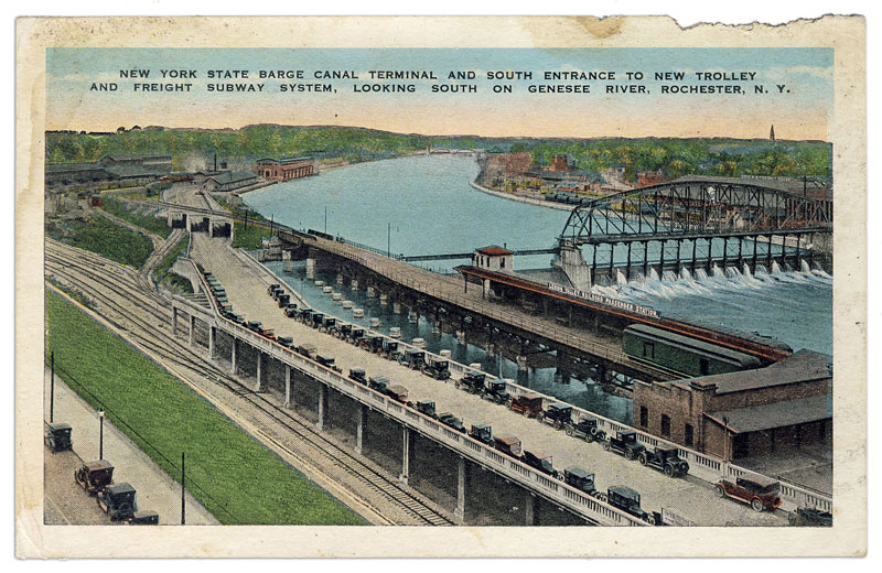 1928 Rochester subway entrance postcard, Lehigh Valley Railroad Station , rochester